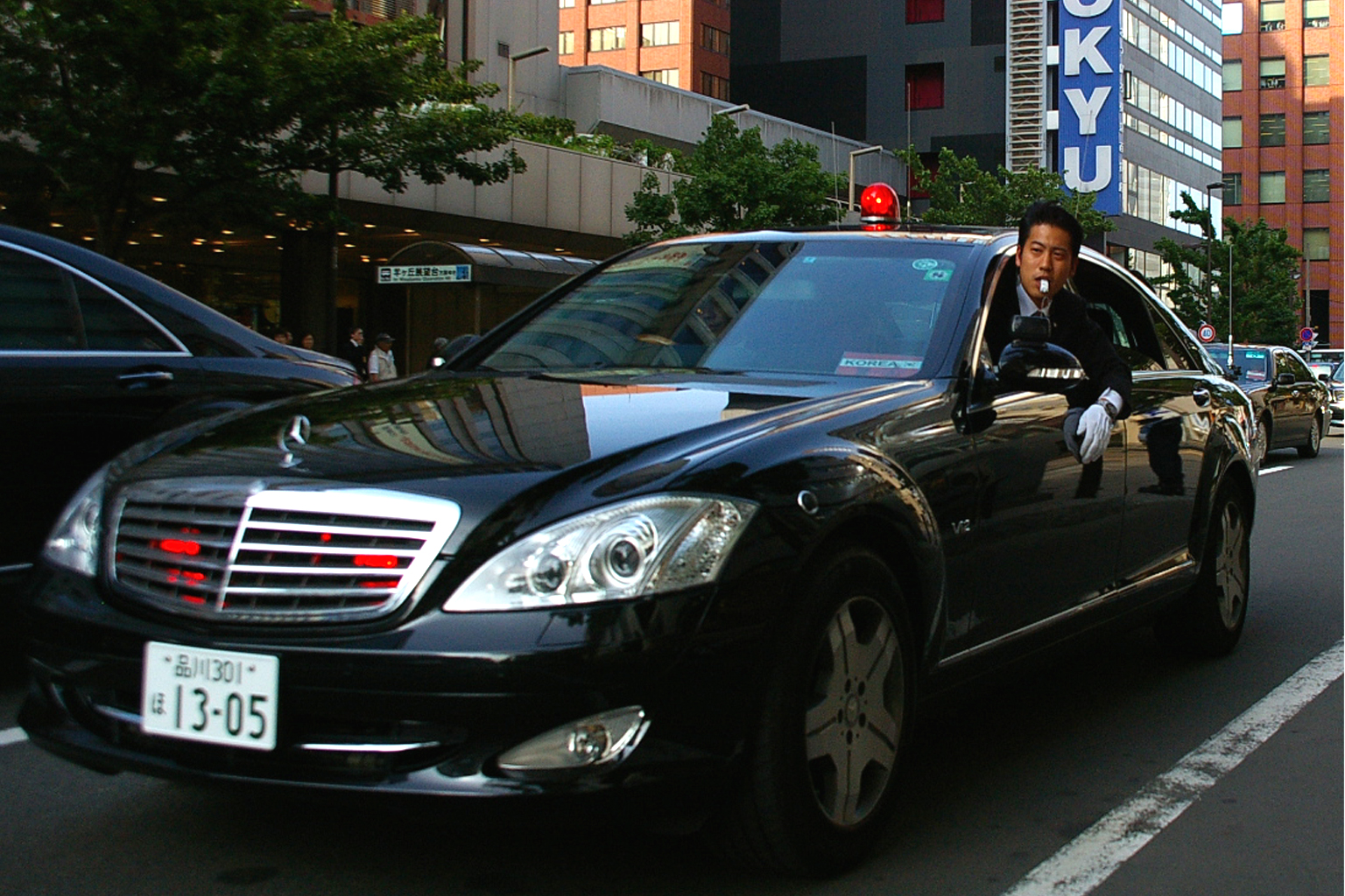 Mercedes-Benz W221 S600 long Security Police.